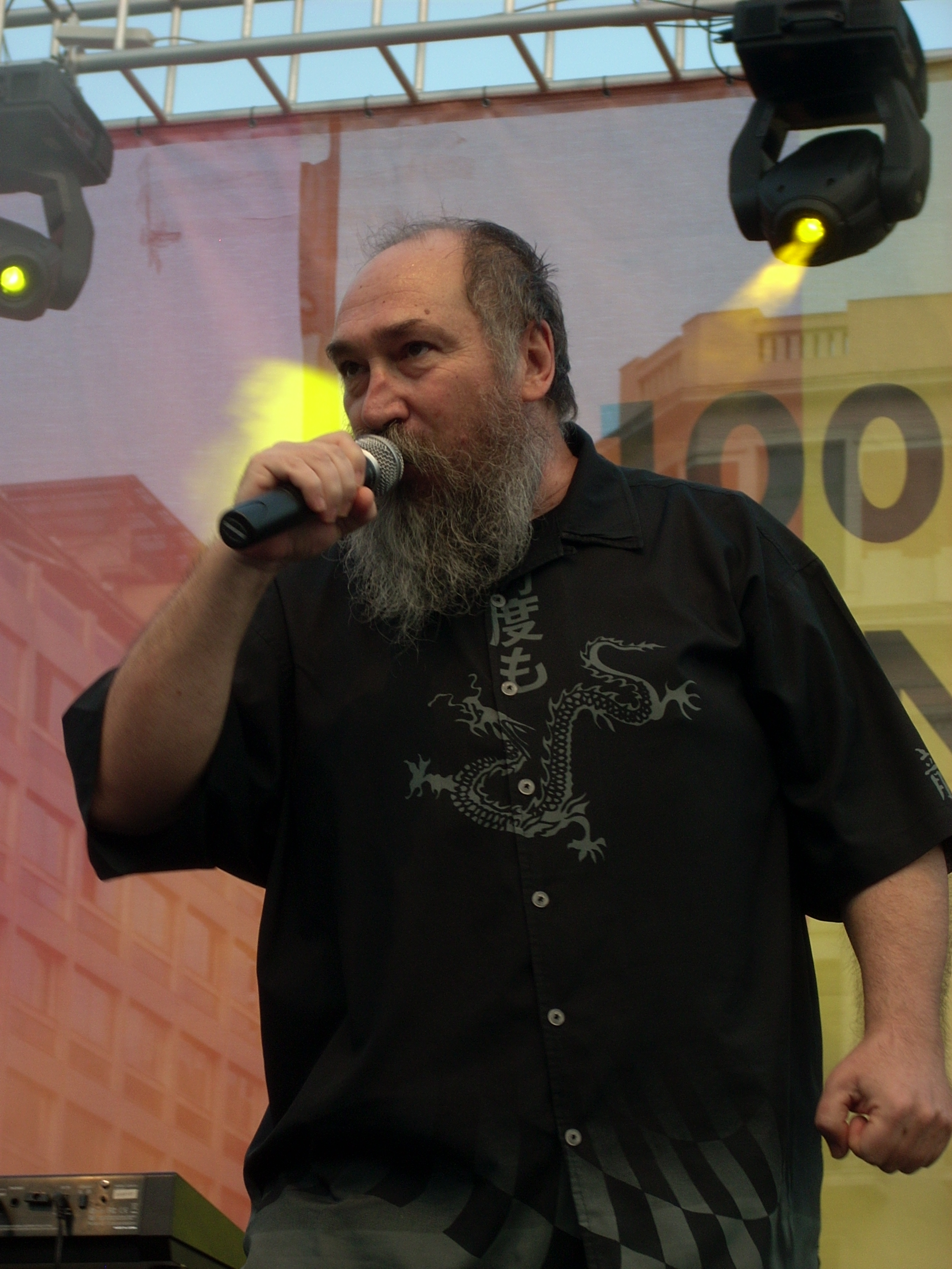 Athens Pride 2009